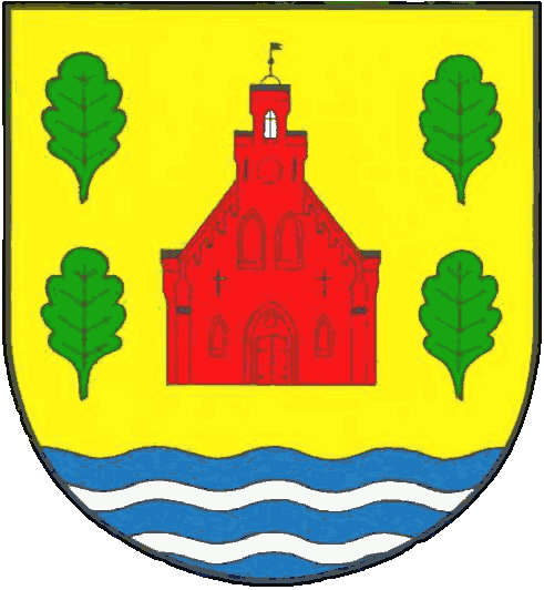 Coat of arms of the municipality Bünsdorf in Schleswig-Holstein, Germany.